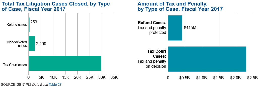 U.S. Tax Court statistics.